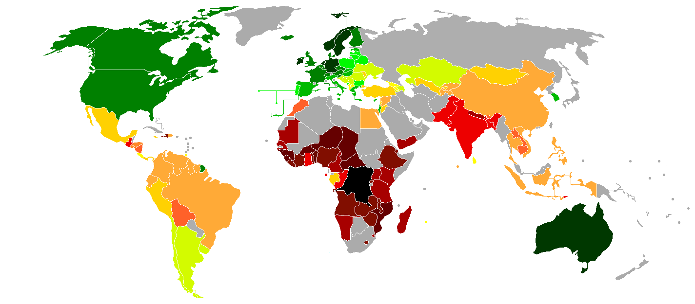 The United Nations inequality-adjusted Human Development Index (IHDI) rankings for 2012 (in 2013 report). For full details, see List of countries by inequality-adjusted HDI 0.850 and over 0.800–0.849 0.750–0.799 0.700–0.749 0.650–0.699 0.600–0.649 0.550–0.599 0.500–0.549 0.450–0.499 0.400–0.449 0.350–0.399 0.300–0.349 0.250–0.300 0.200–0.250 under 0.200 Data unavailable